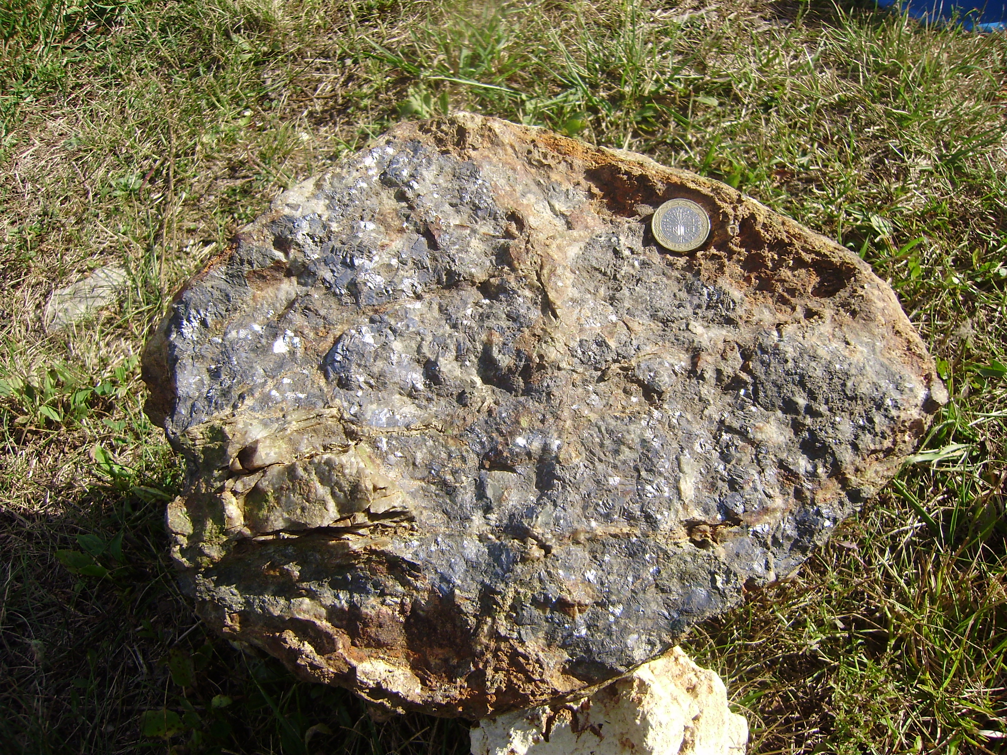 Massive galena on a quartz vein (Mine du Cantonnier) in fine-grained granodiorite, Nontron, France. Some pyromorphite is also present.